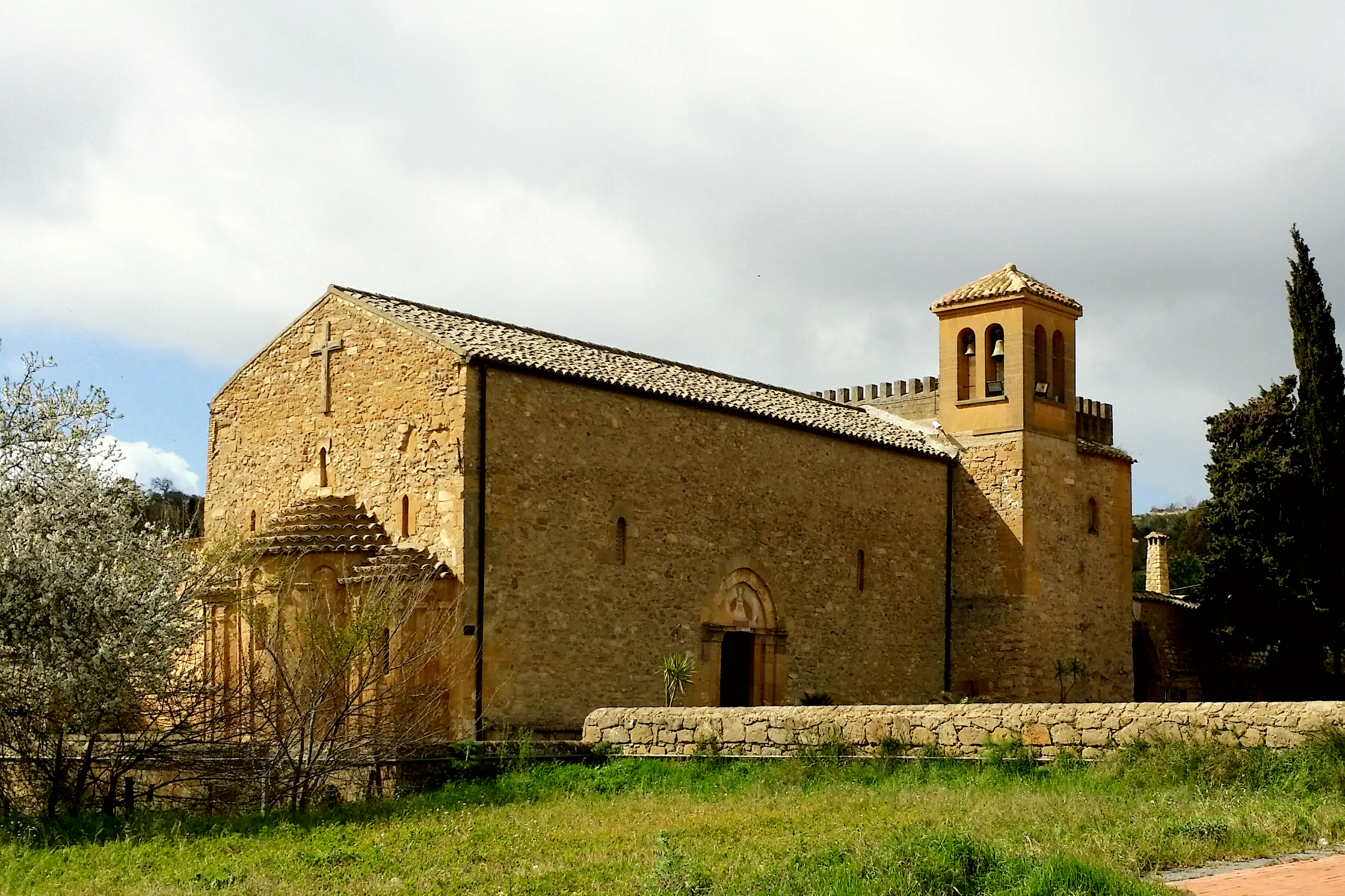 External view of Santo Spirito abbey in Caltanissetta, Italy (northern side)